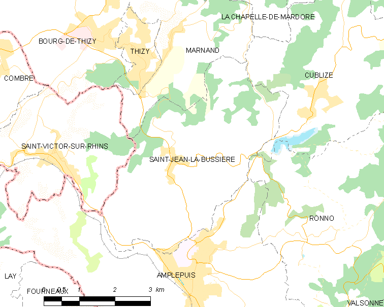 Map of French municipality